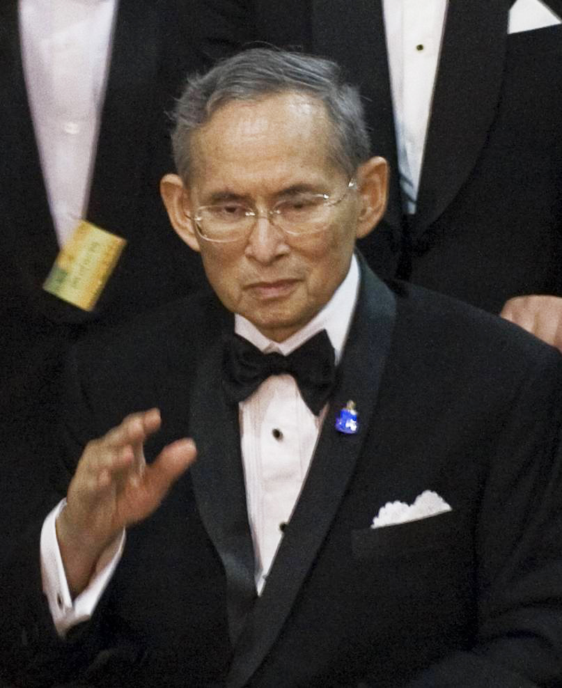 Thailand's King Bhumibol Adulyadej waves to well-wishers during a concert at Siriraj hospital in Bangkok on September 29, 2010.